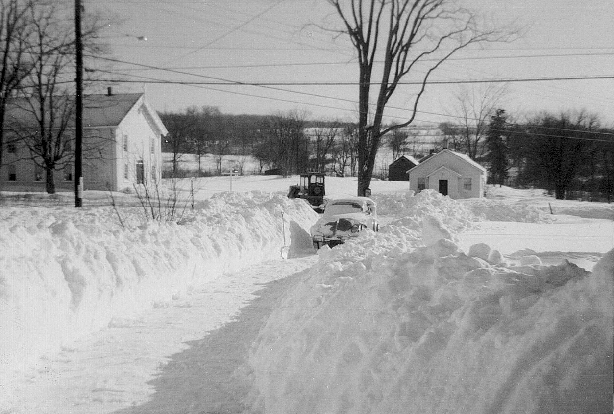 Fostertown Church, Town of Newburgh, New York in the winter of 1959–60. The small building on the right—which belonged to the church—was the first schoolhouse in the area.